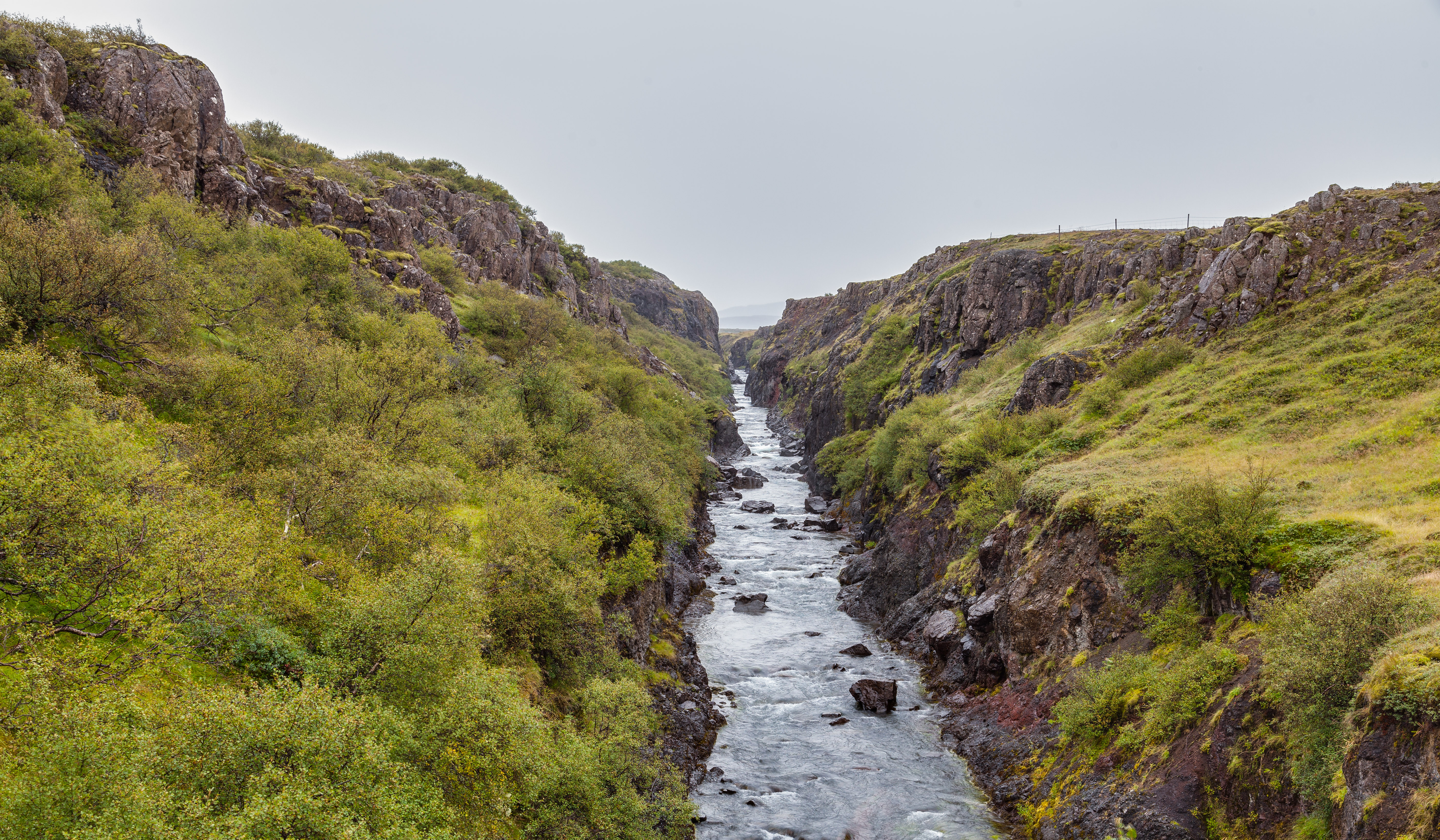 River in Borgarhreppur, Vesturland, Iceland